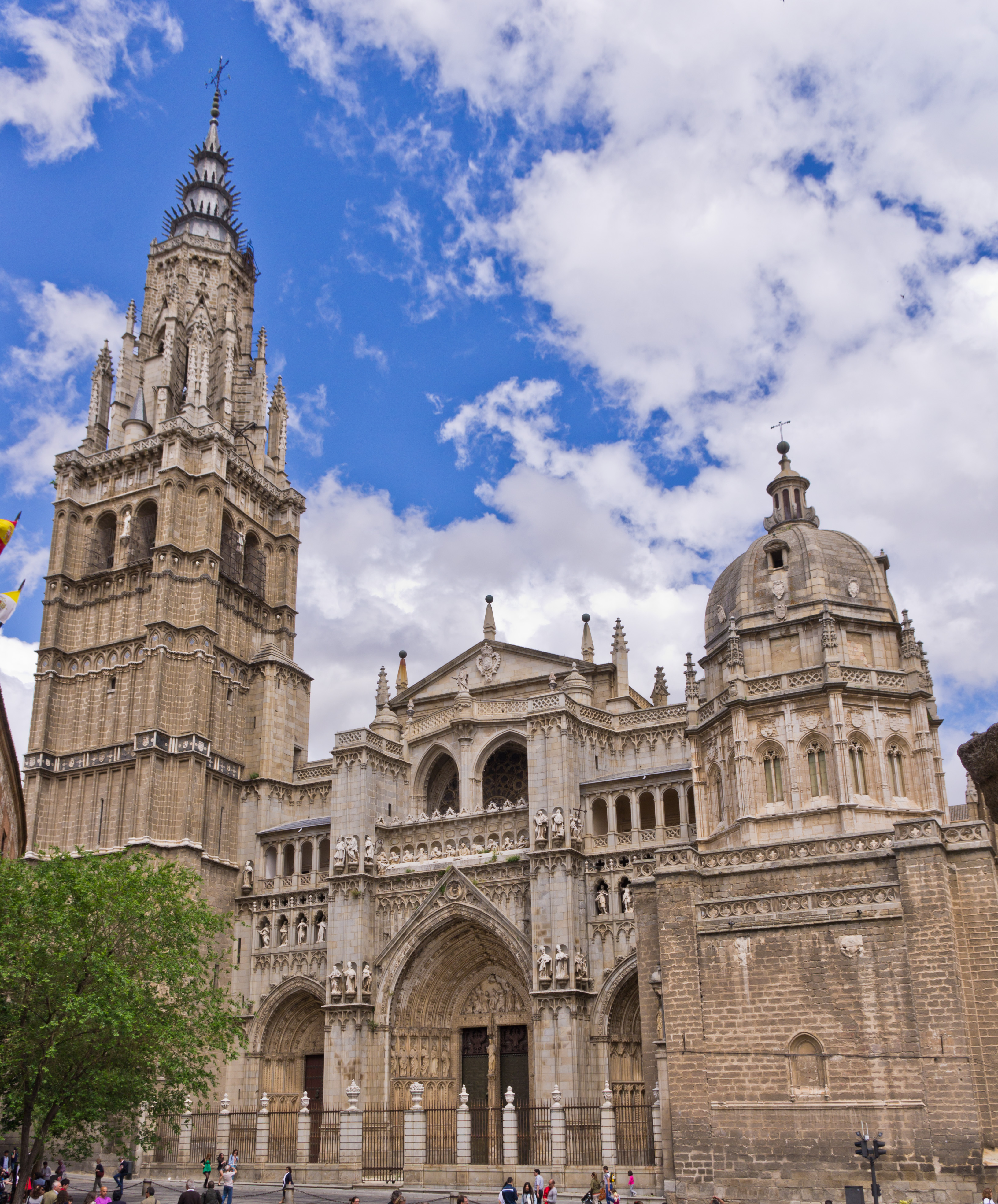 Exteriors of Cathedral of Toledo